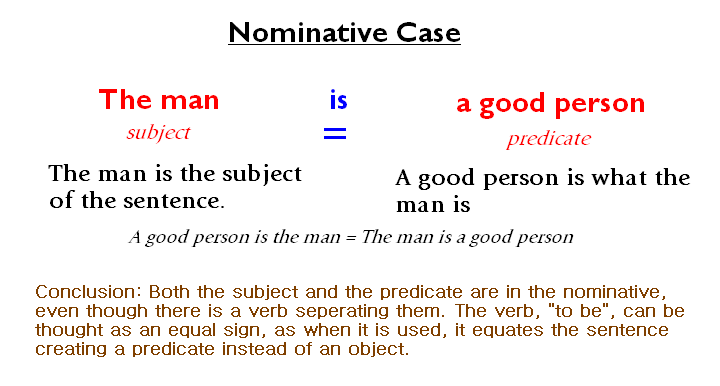 A chart explaining the concept of the nominative case. I made this chart myself, and I don't care whoever uses it, it is free. :)